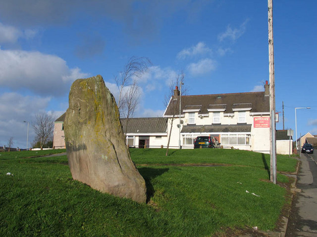 Standing Stone in Bonymaen, near to Pentre-Dwr, Swansea/Abertawe, Great Britain. This standing stone lies incongruously just off the road in a busy housing estate.